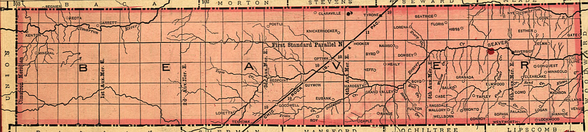 Old Beaver County, Oklahoma Territory. Detail from 1905 map and is in the public domain